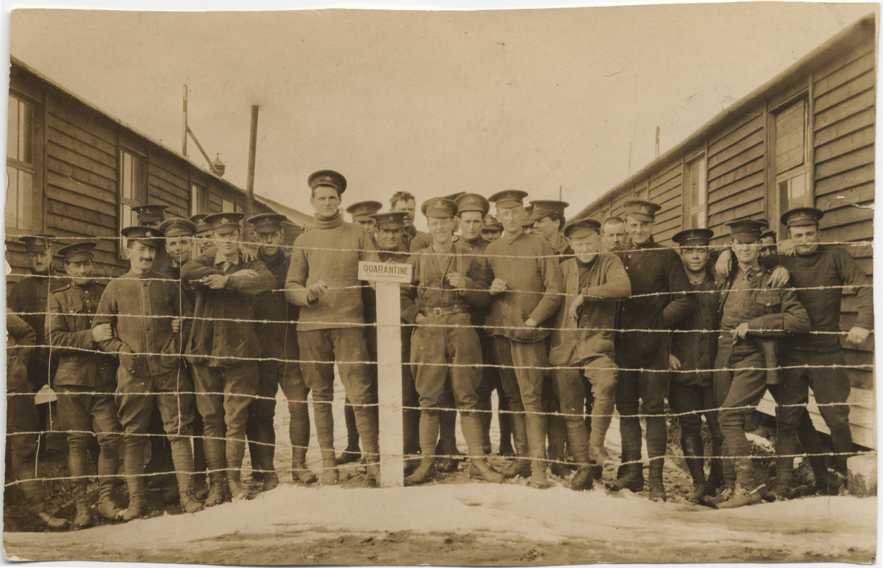 Item is a photograph from an album of World War One-related photographs in the William Okell Holden Dodds fonds. Brigadier General Dodds joined the Canadian Expeditionary Force in 1914 and was commanding officer of the 5th Canadian Division Artillery and served in France from 1917-1918.